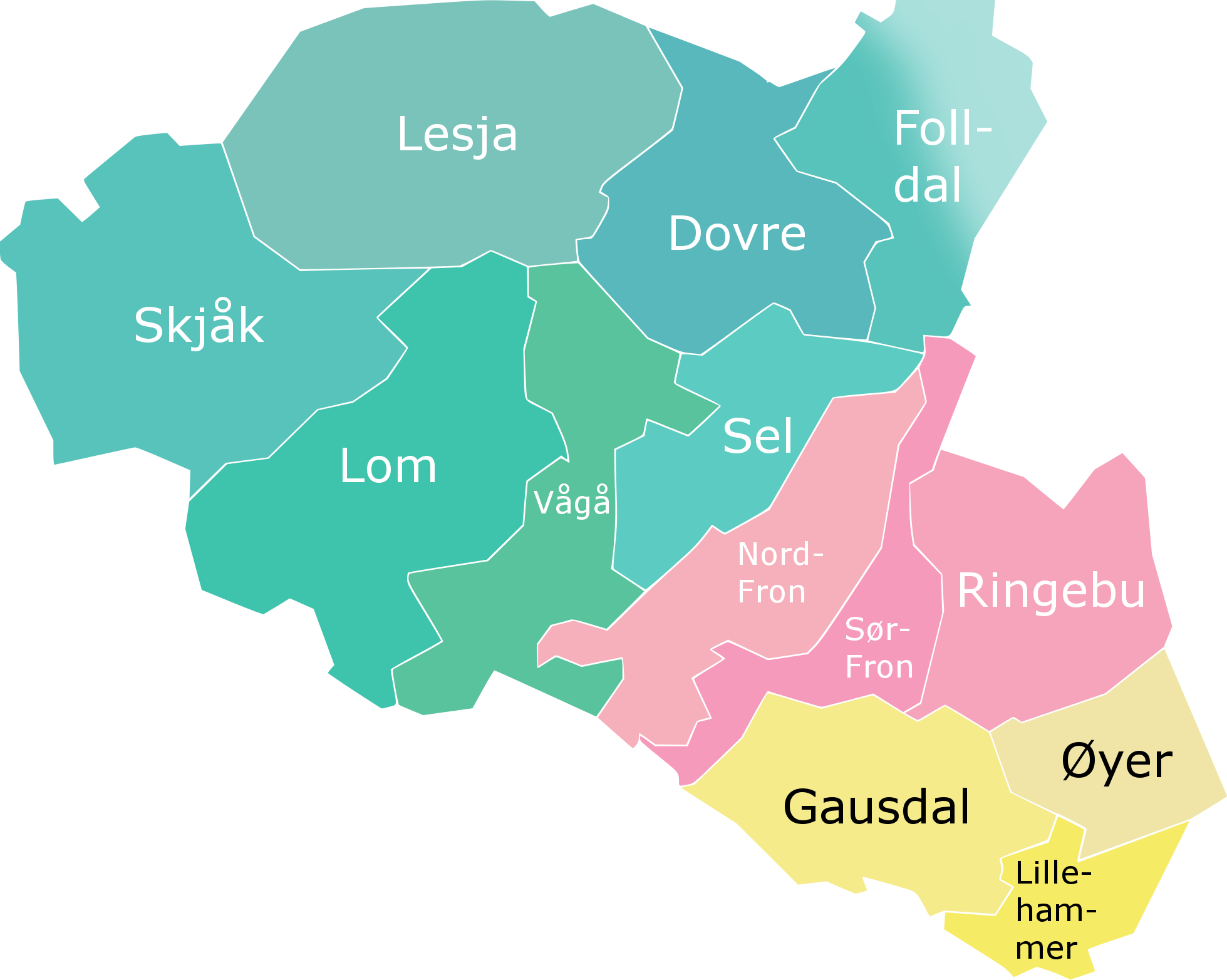 Map of Gudbrandsdalen, based on this image.